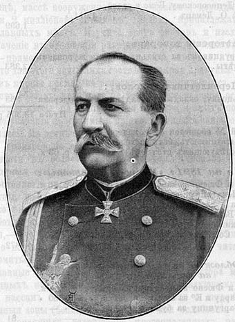 Goncharov, Stepan Osipovitch.